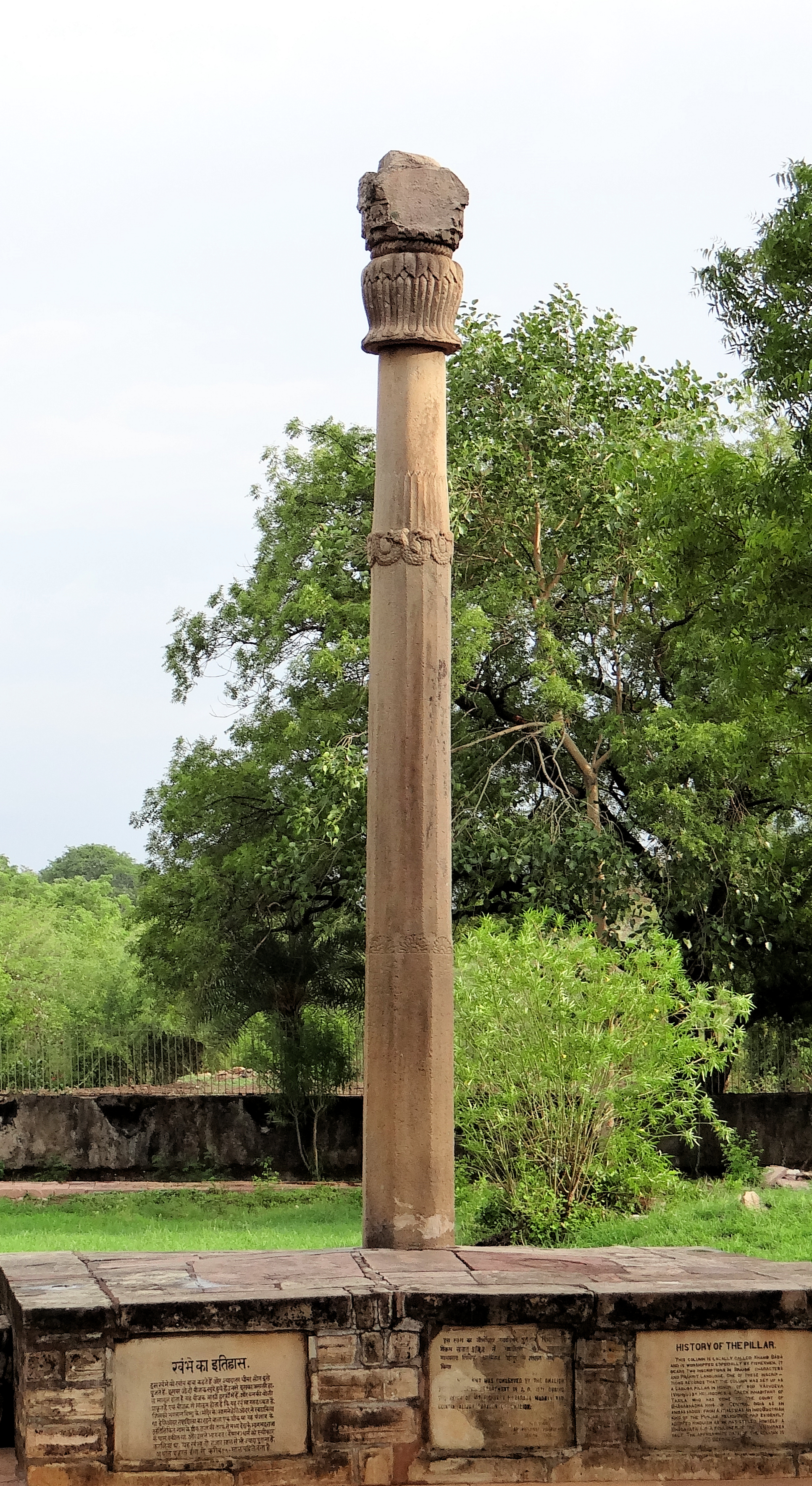 Heliodorus pillar (cropped)